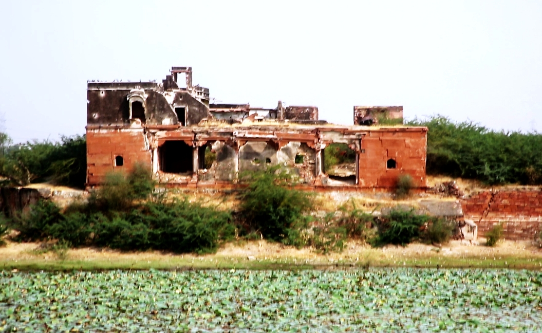 this is the place in merhta disttrict nagour, rajasthan, india. where mirabai ji spent her childhood to till marriage .